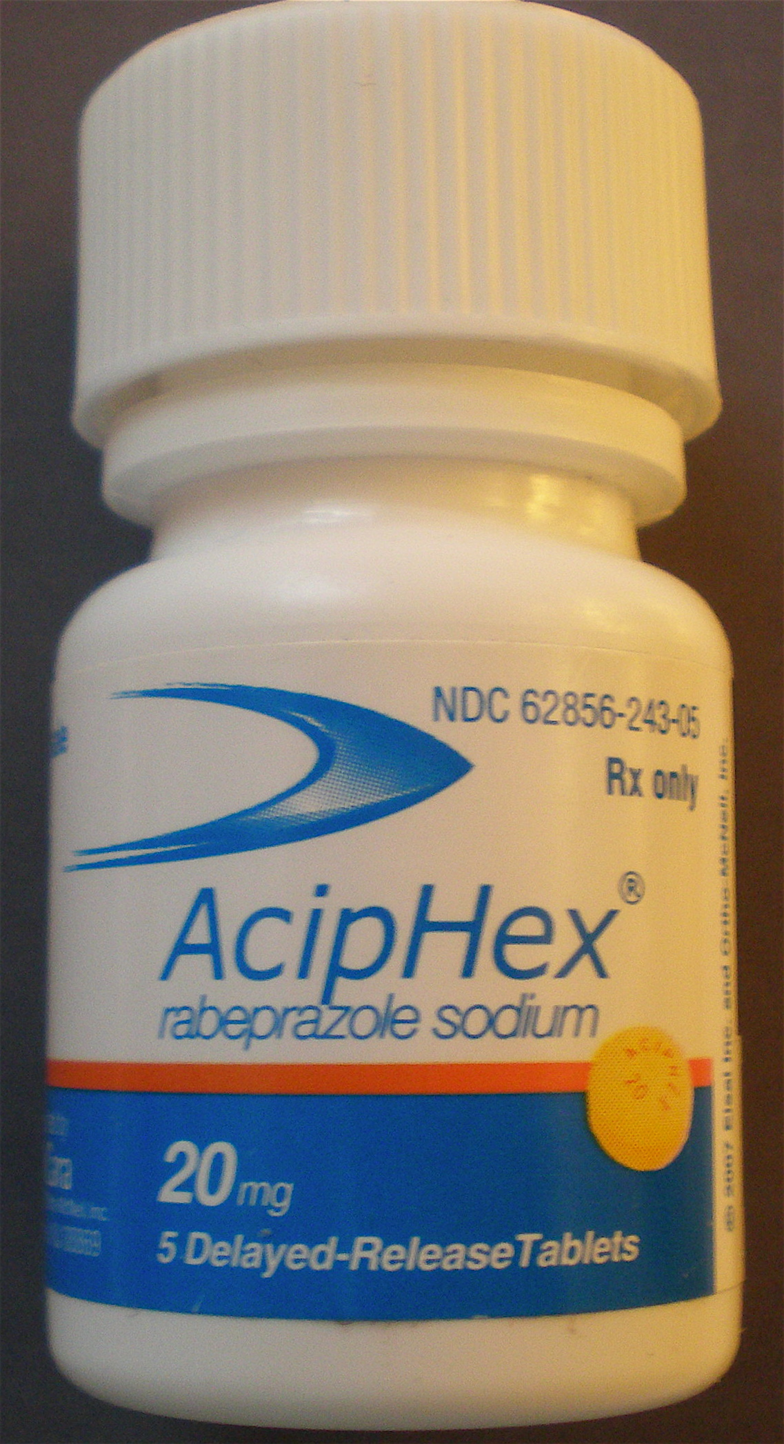 Bottle of Aciphex 20mg tablets